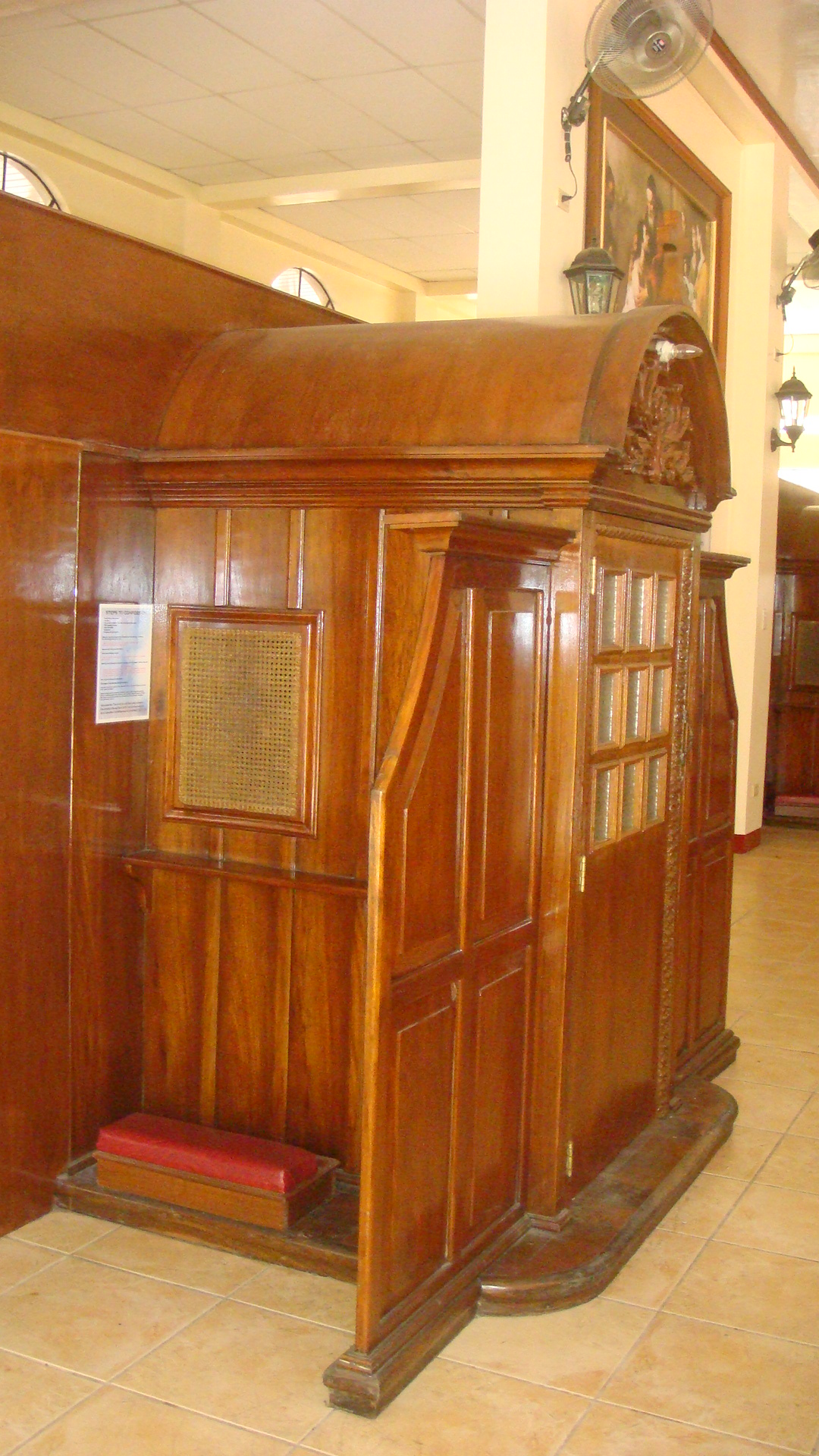 Confession box (Confessional), Our Lady of Manaoag Shrine, Pangasinan[1]